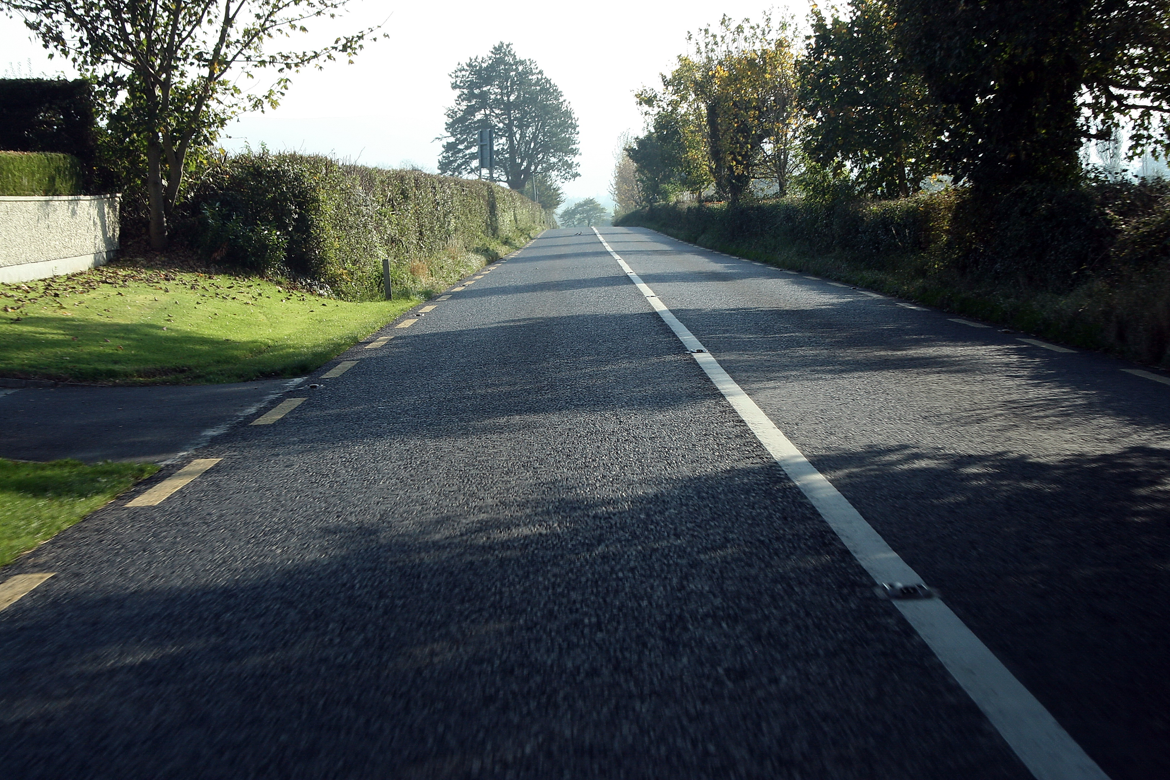 The R689 north of Clonmel, County Tipperary, Ireland